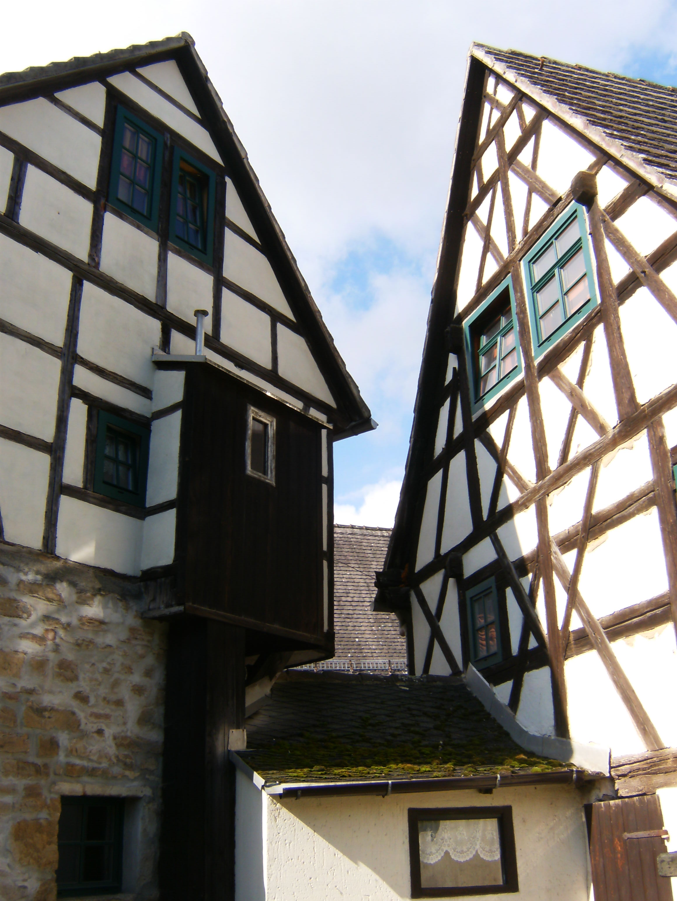 Timber framed building in Bad Köstritz (Thuringia) with toilet.